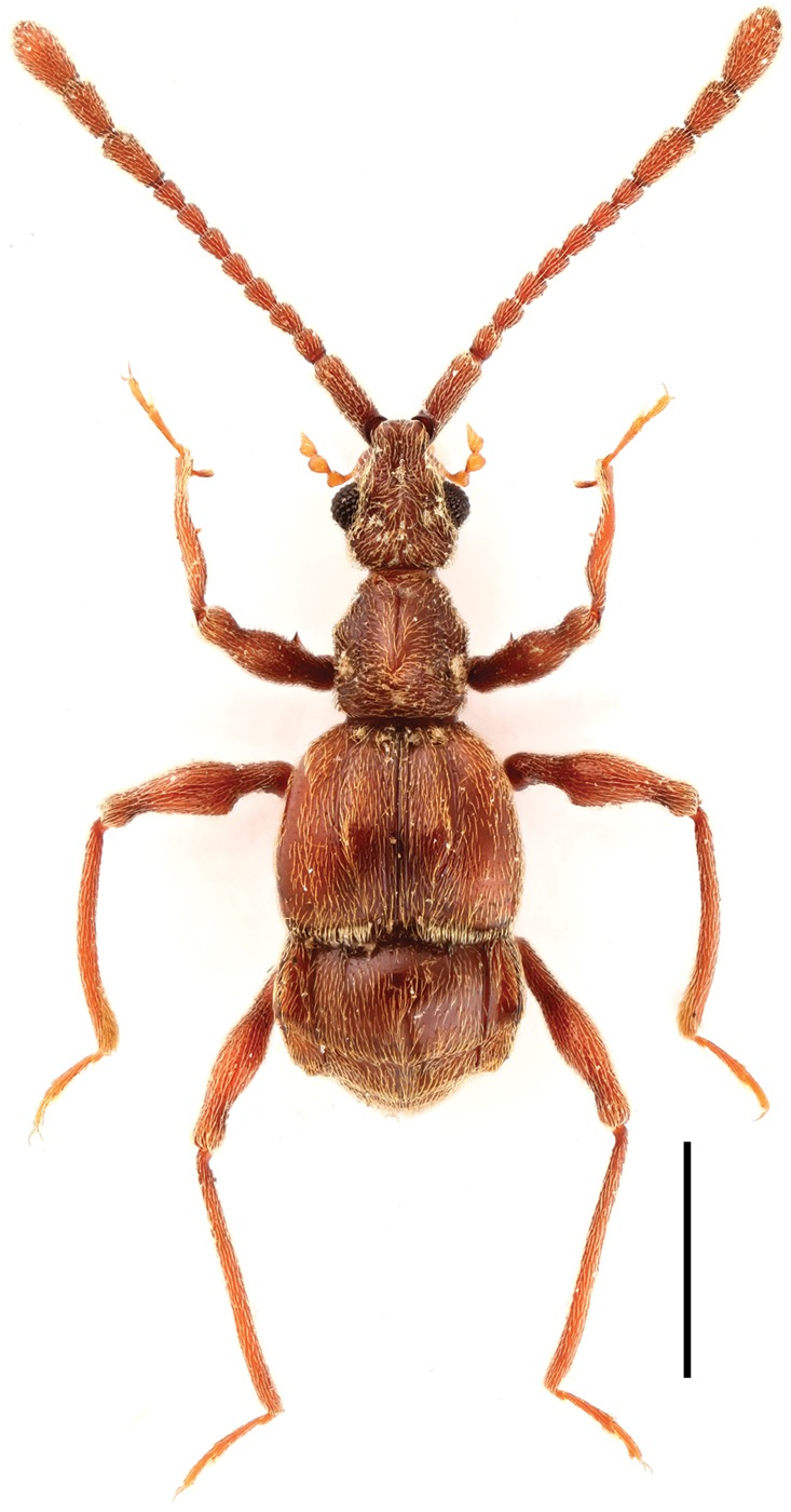 Male habitus of Pselaphodes pectinatus. Scale: 1.0 mm.